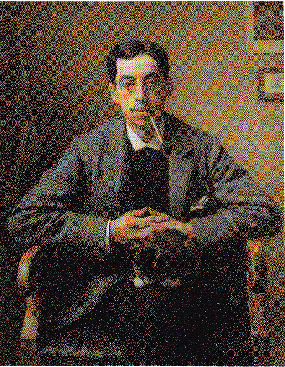 Dutch author Arnold Aletrino (1858-1916). Location 2015: Nederlands Letterkundig Museum, The Hague (NL)